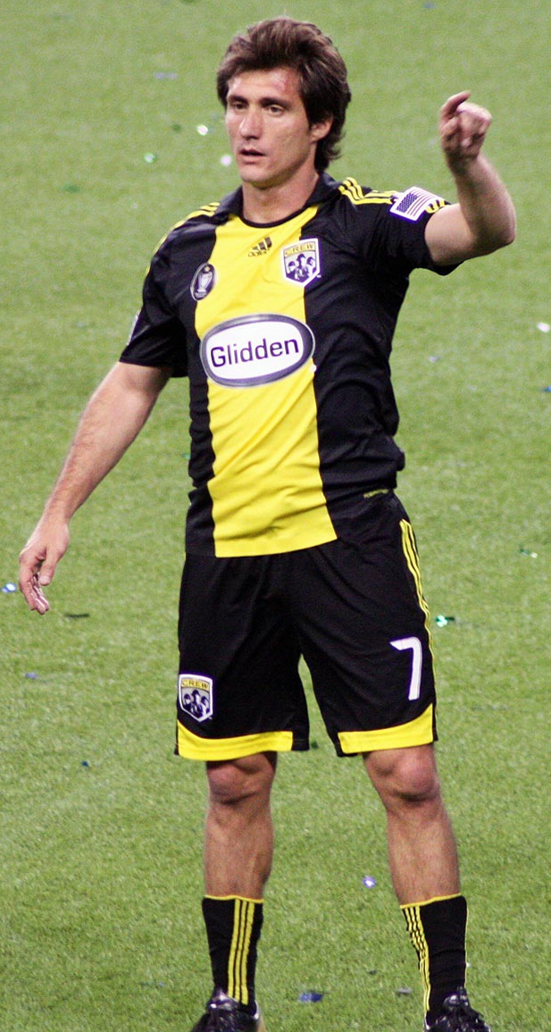 GB Schelotto during match against Seattle Sounders